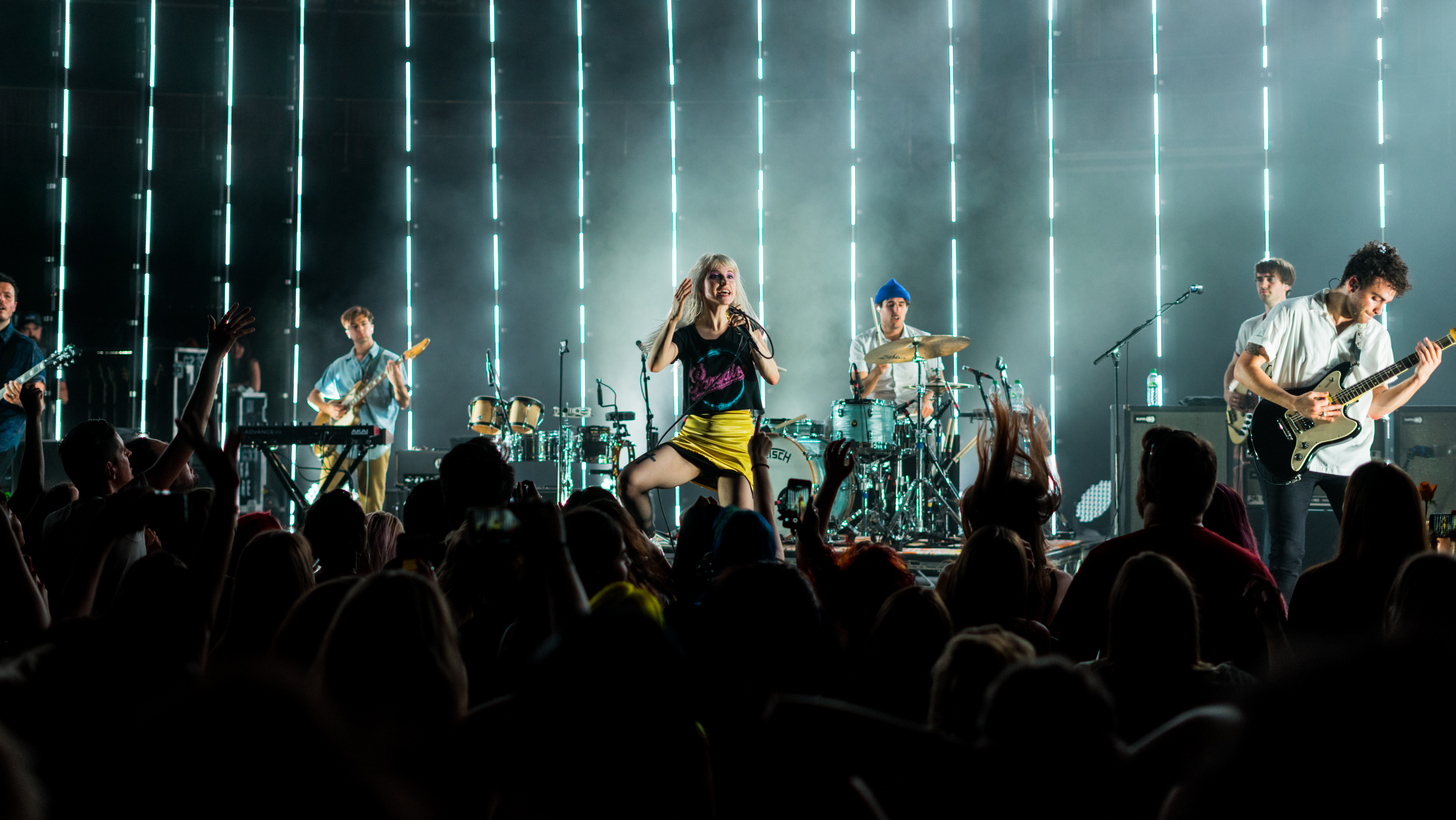 Paramore live concert at Royal Albert Hall, London, UK.